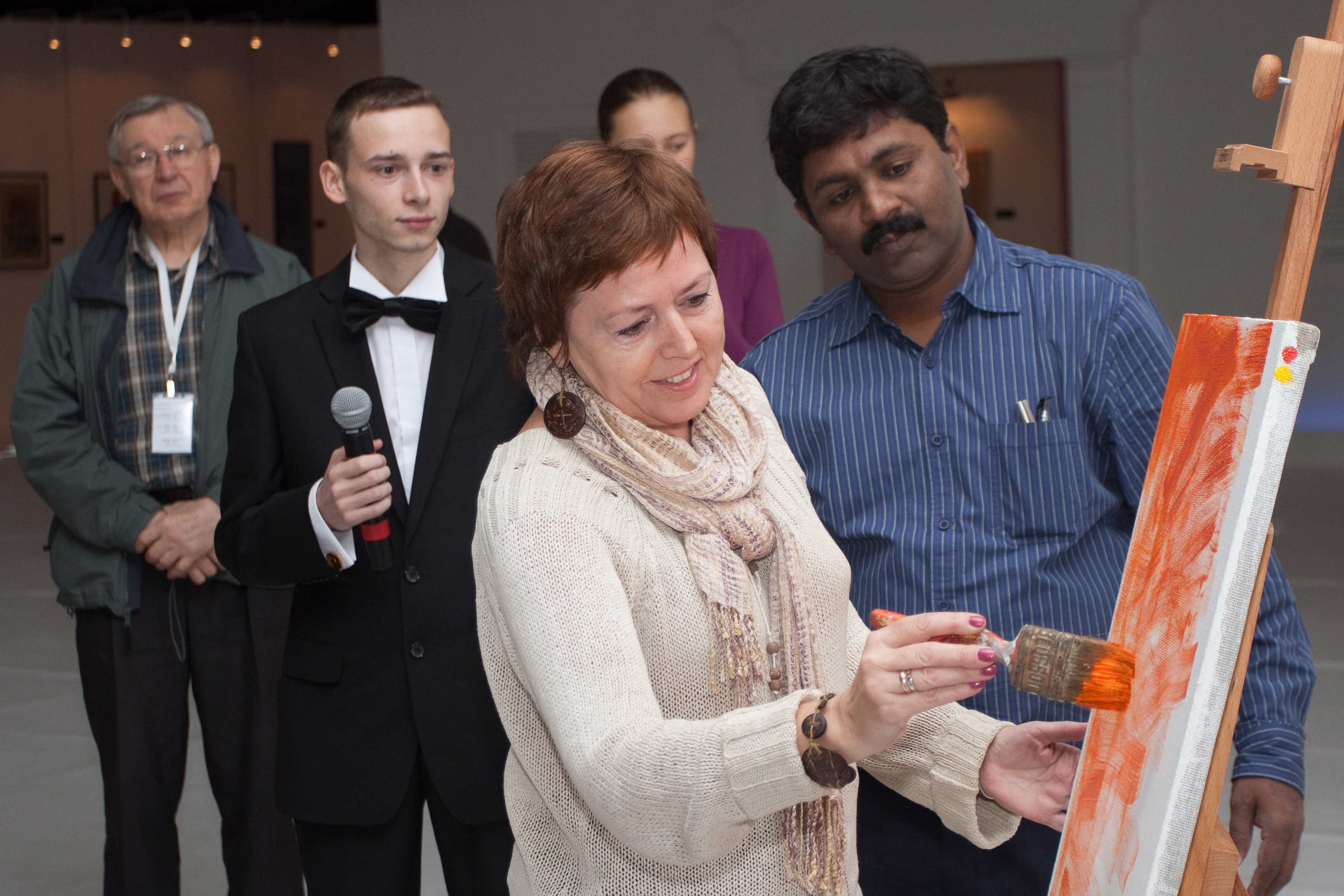 photo is taken during the International Exhibition of Calligraphy in Velikiy Novgorod